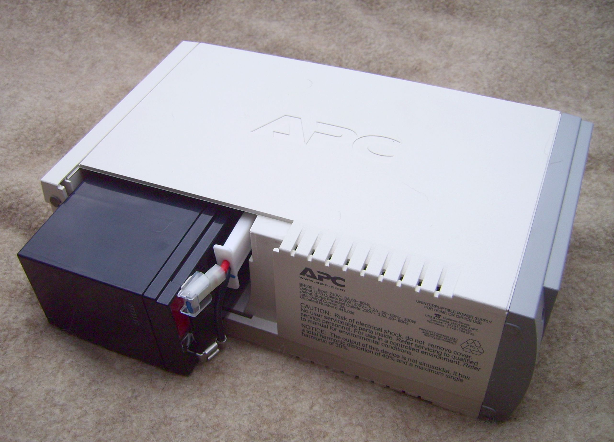 Uninterruptible power supply (UPS) by American Power Conversion (APC). Model Back-UPS RS 500. APC part number BR500I, 300 Watts / 500 VA, Input 230V / Output 230V. Control panel with LED status display On Line / On Battery / Replace Battery / Overload indicators. Alarm when on battery / distinctive low battery alarm / overload continuous tone alarm